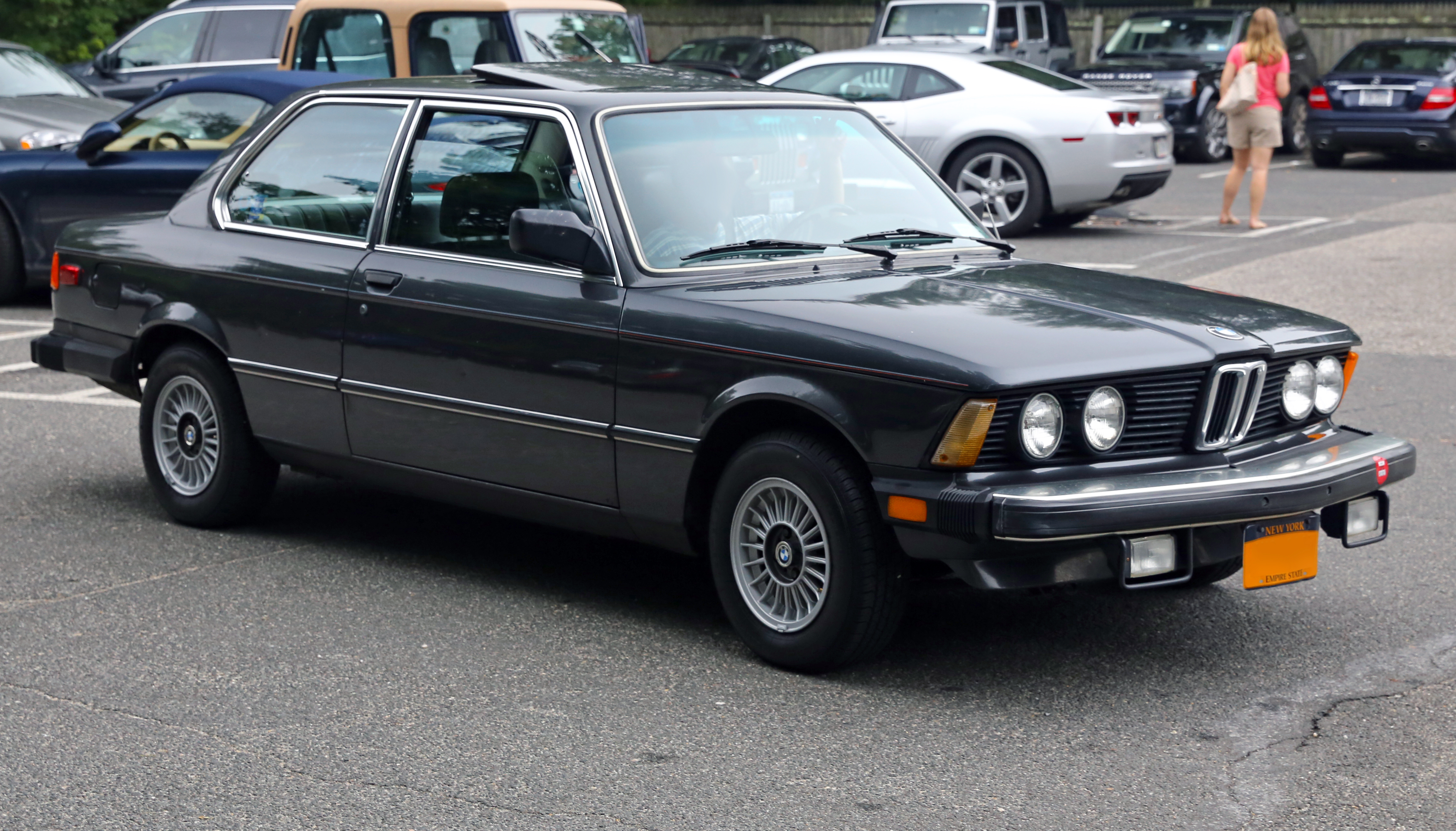 1981 BMW 320i, East Hampton, NY. This federalized version has all the trimmings, metal sunroof and extra lamps etcetera.